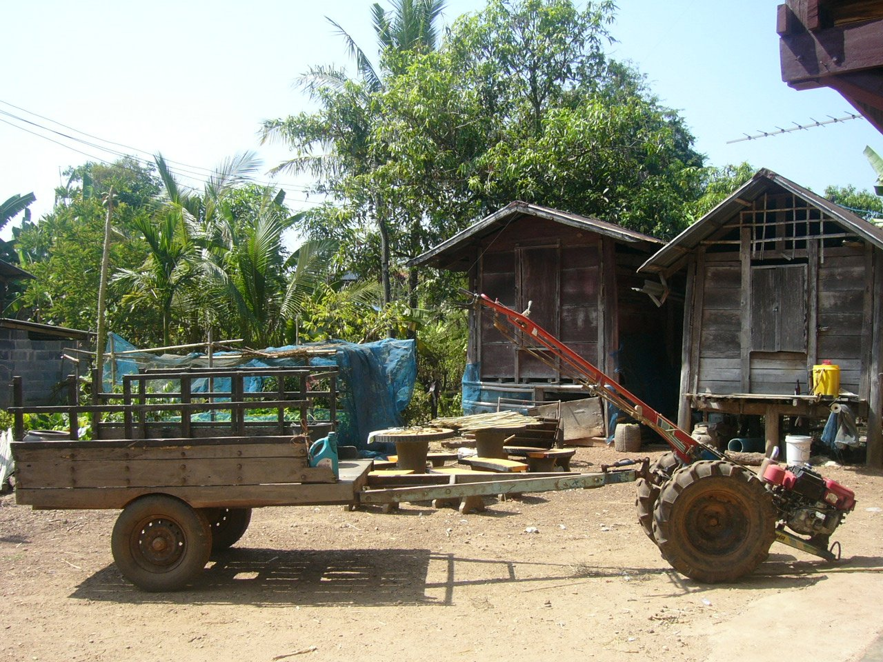 A one-axled tractor which is typical in the Isaan region, Thailand.